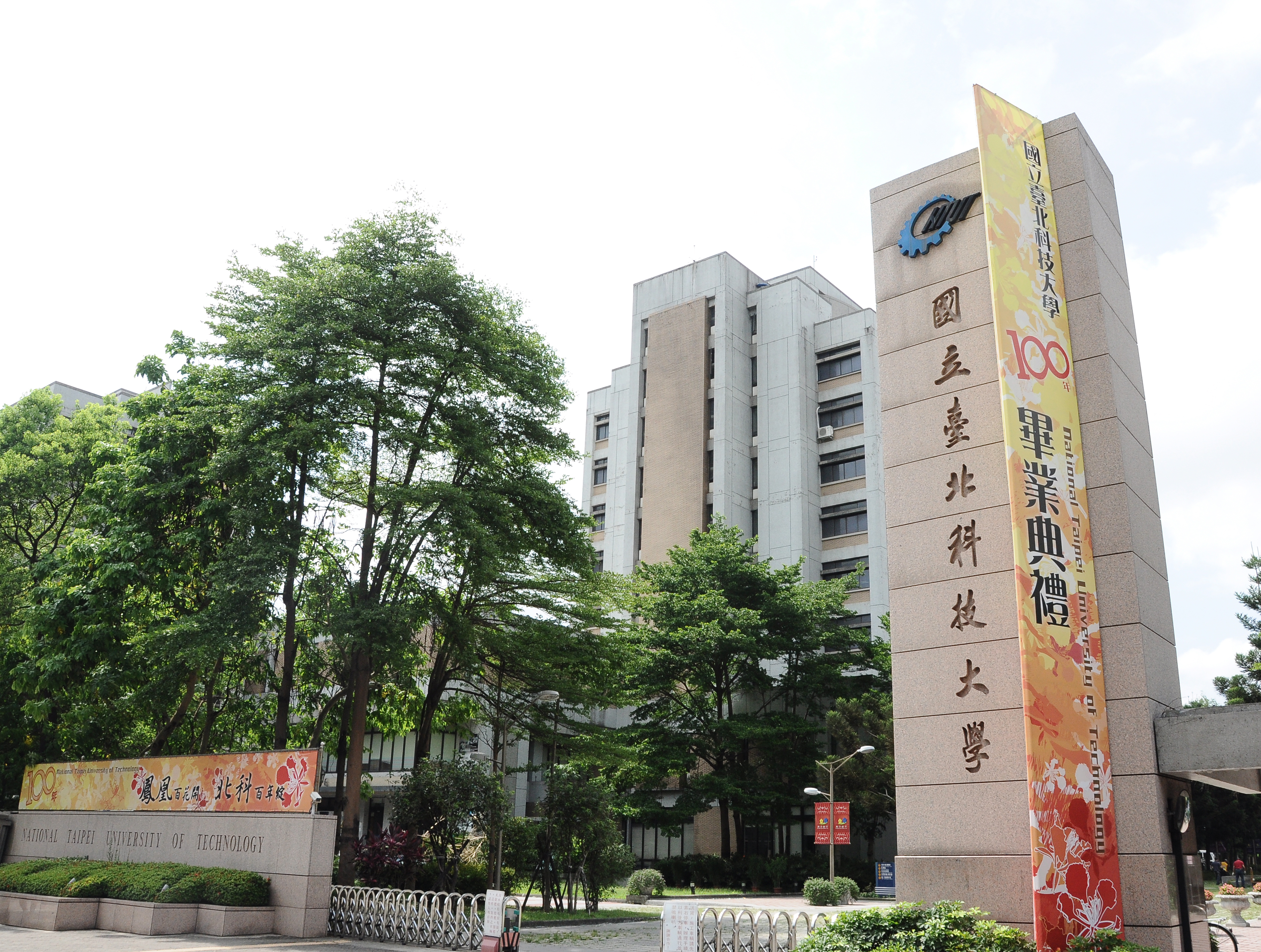 NTUT main gate on Zhongxiao East Road, fitted with 2011 commencement ceremony banner